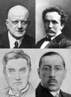 Composite image of Jean Sibelius (top left), Richard Strauss (top right), Ralph Vaughan Williams (bottom left), Igor Stravinsky (bottom right)